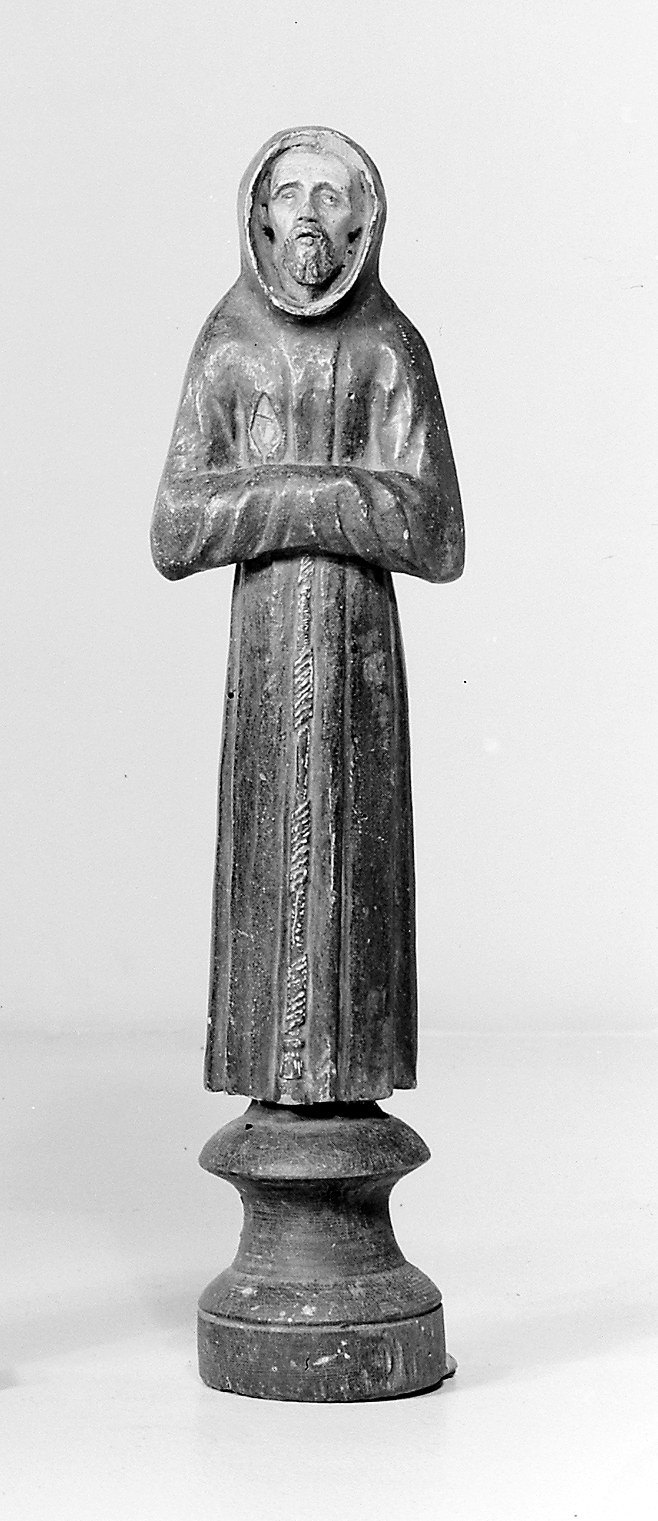 Saint Francis of Assisi. Wellcome Images Keywords: Francis of Assisi